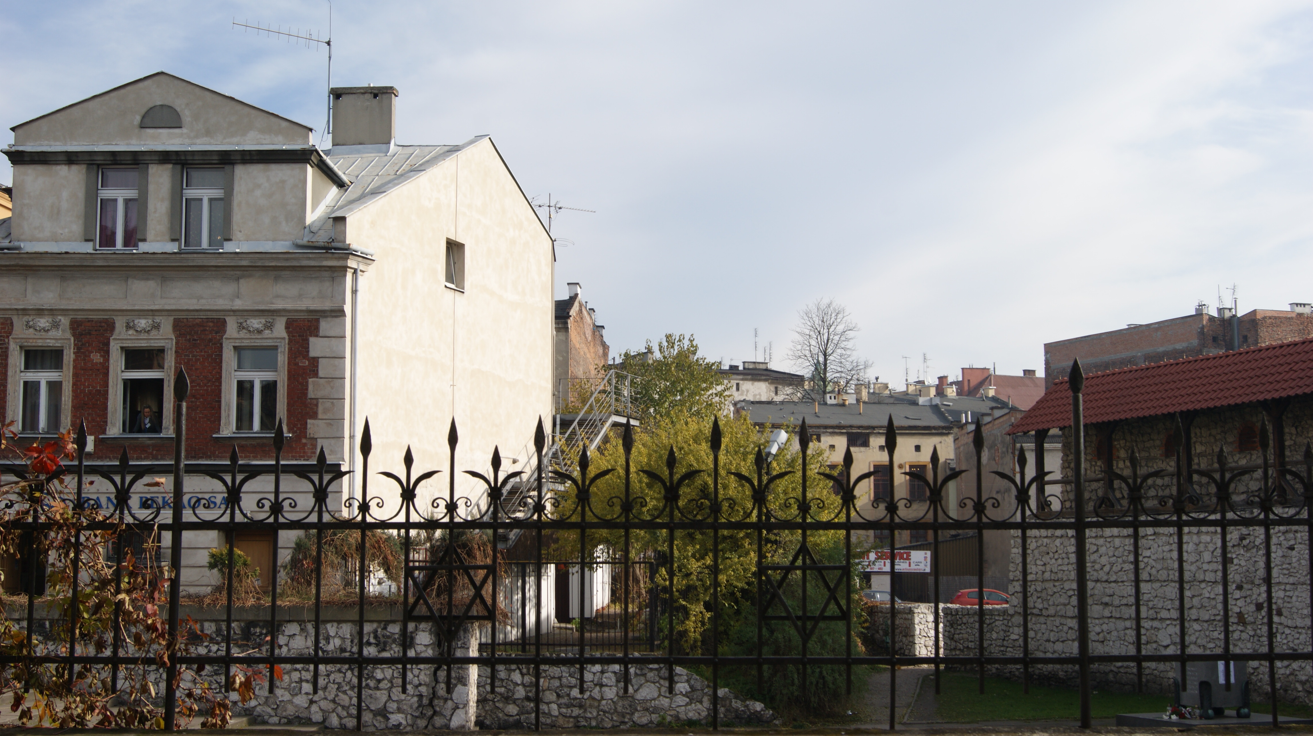 Szeroka street (Auf'n Bergel Synagogue),Kazimierz,Krakow,Poland